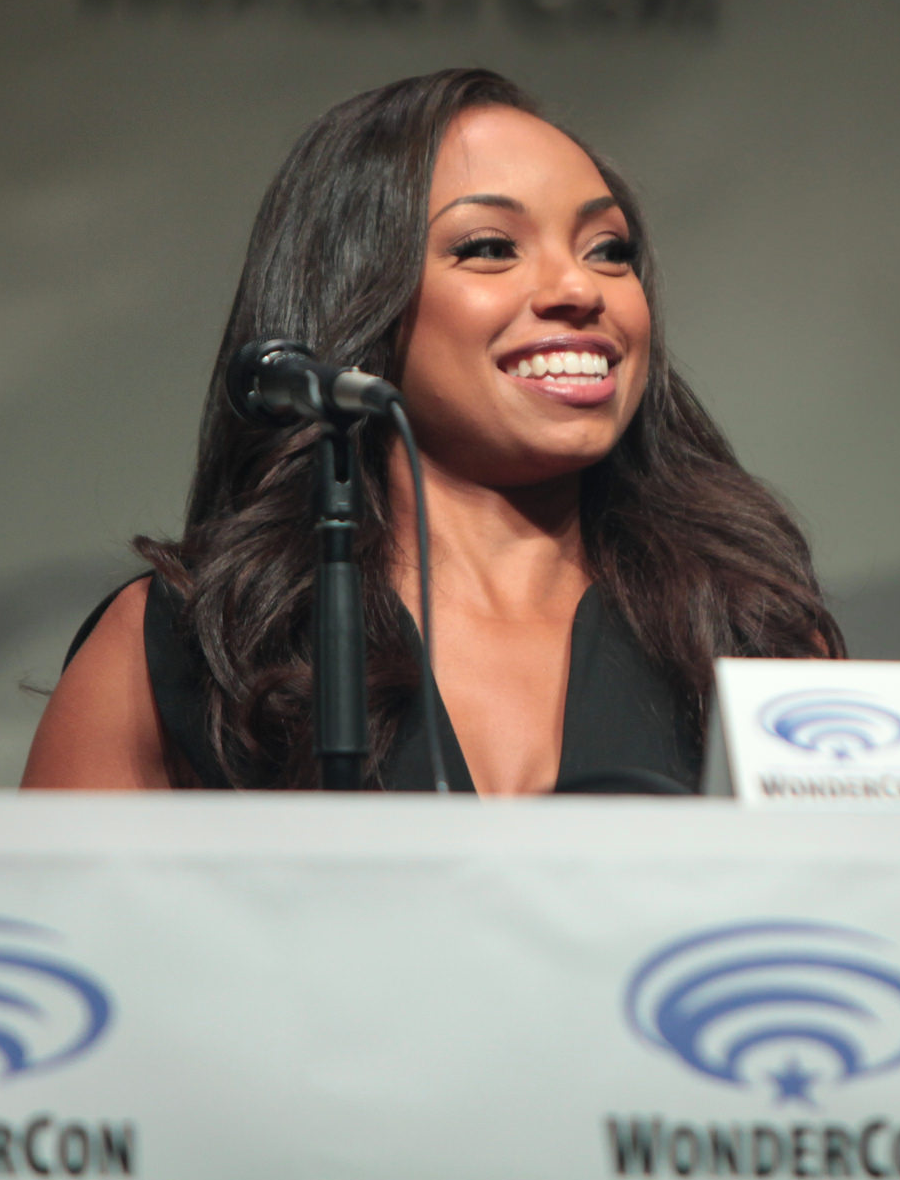 Logan Browning at the WonderCon 2015 panel for "Powers"